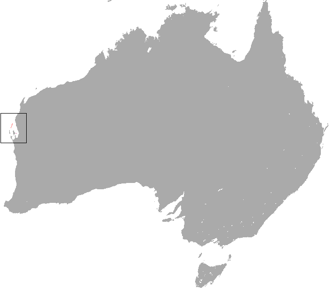 Banded Hare Wallaby (Lagostrophus fasciatus) range (red — native, pink — reintroduced)